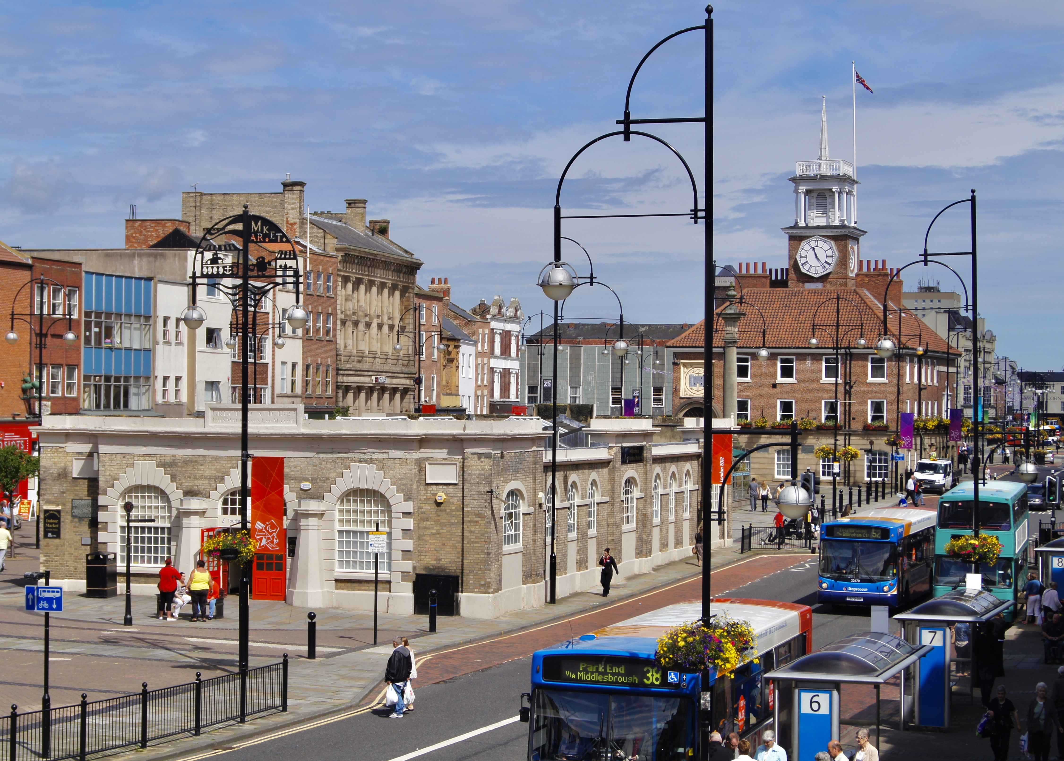 Town Hall and Shambles Market Hall, Stockton on Tees. Picture taken viewing north.